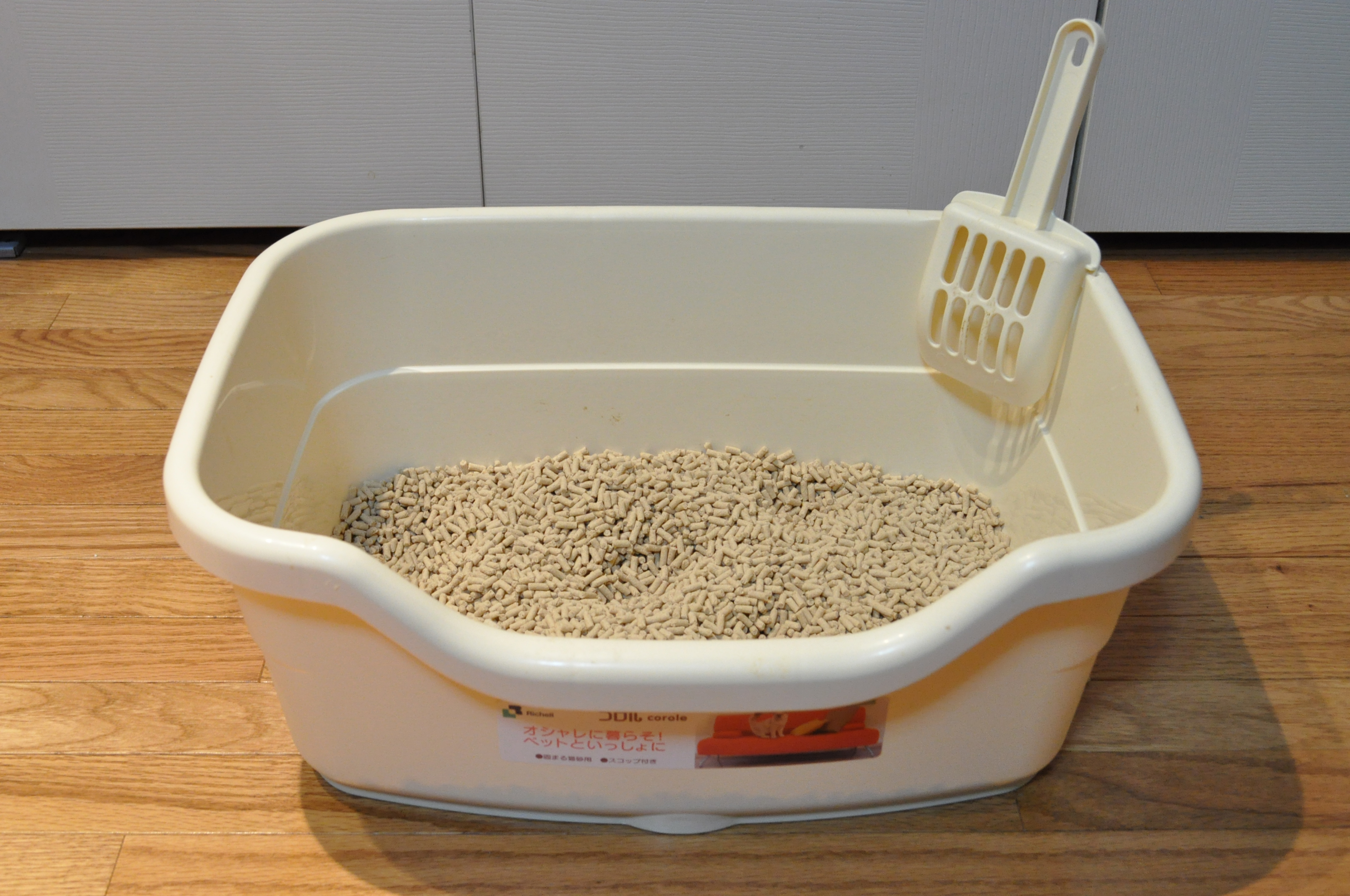 Japanese typical litter box